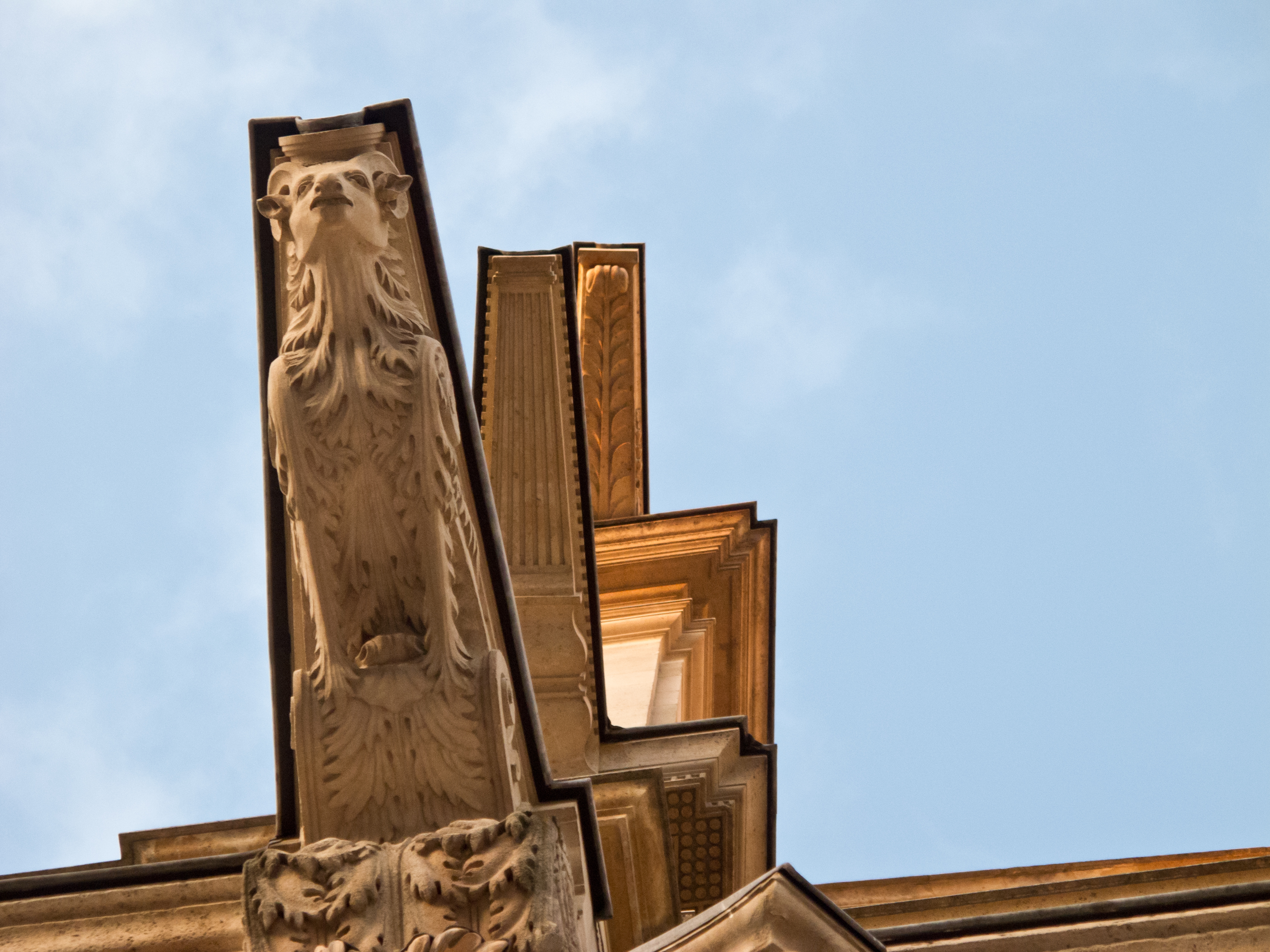 Saint-Eustache church, Paris, France. .